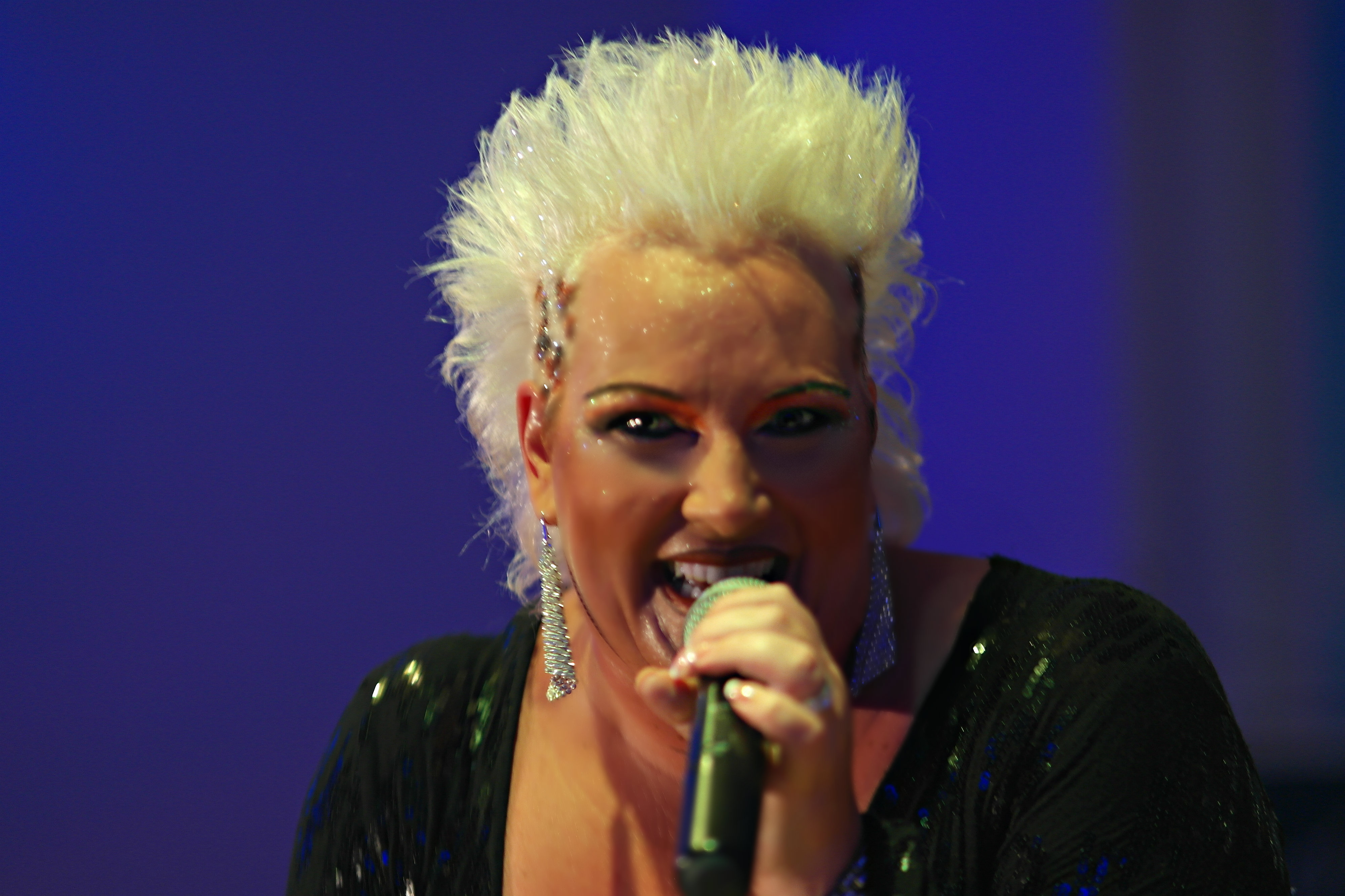 Wanda Kay Live